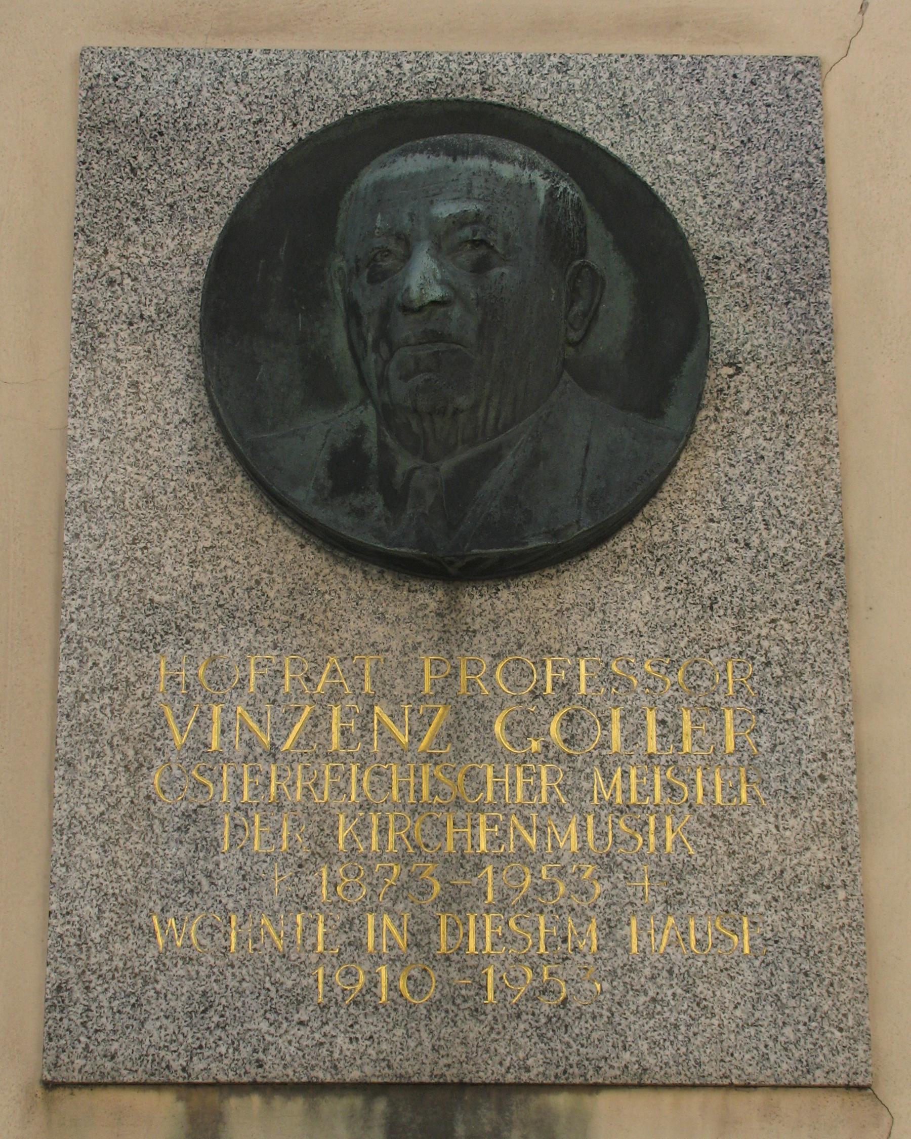 Memorial tablet for Vinzenz Goller in Klosterneuburg, Austria